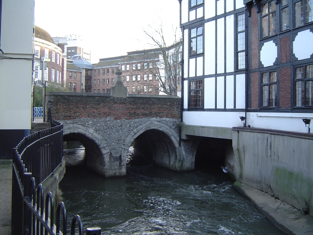 Clattern Bridge across the Hogsmill River, Kingston on Thames